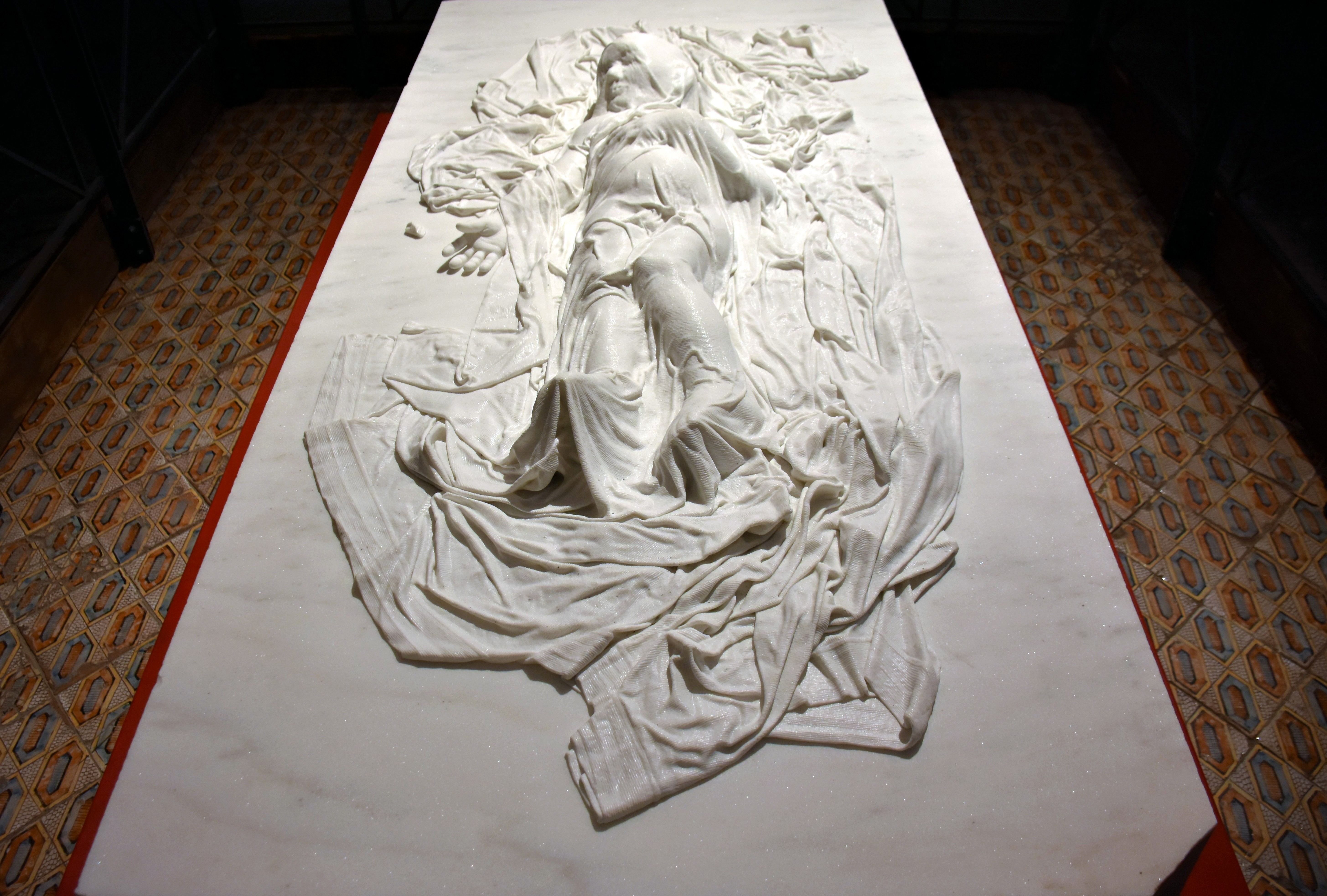 The work is a complaint against the atrocities of today.